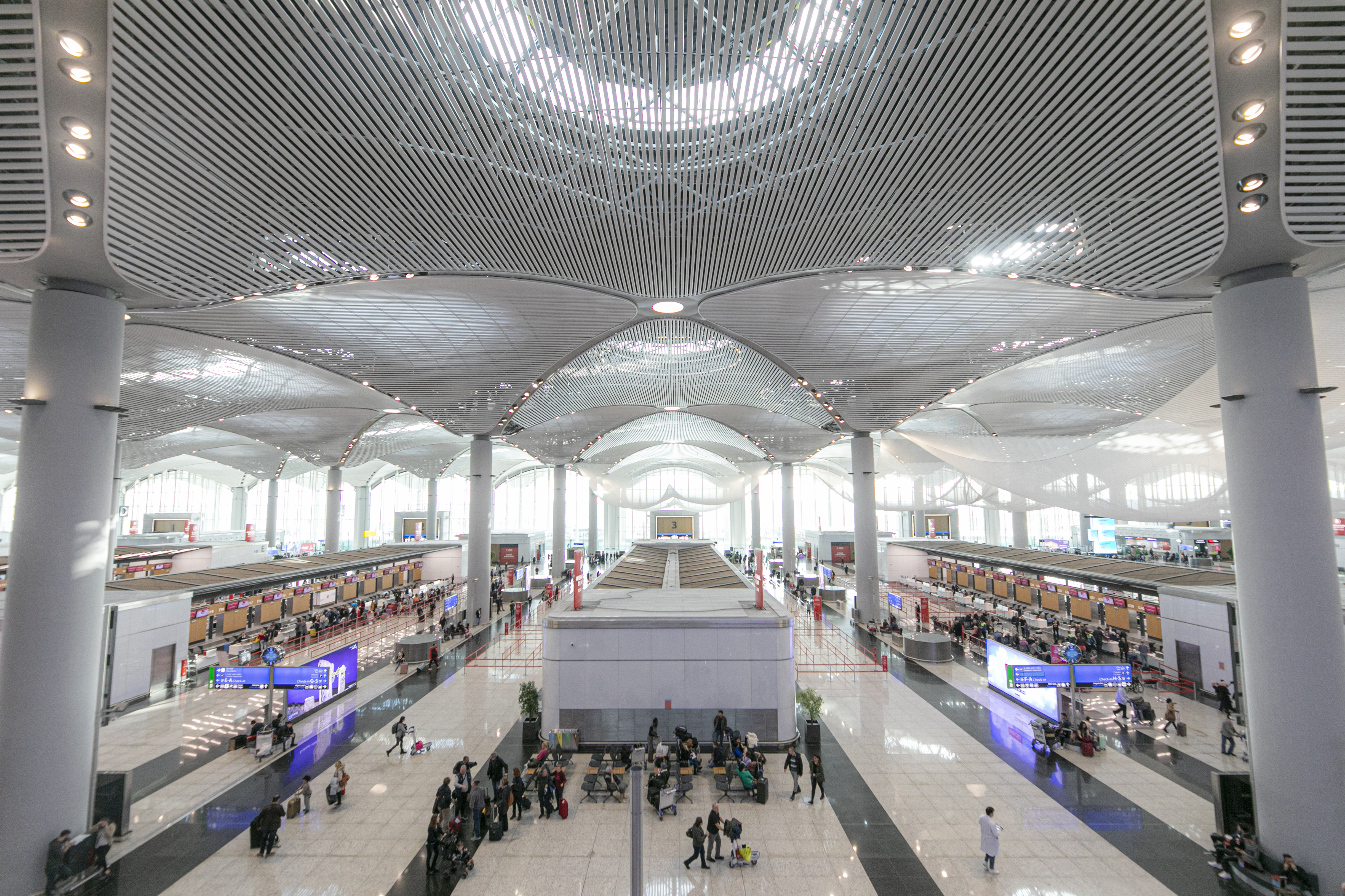 İstanbul Flughafen